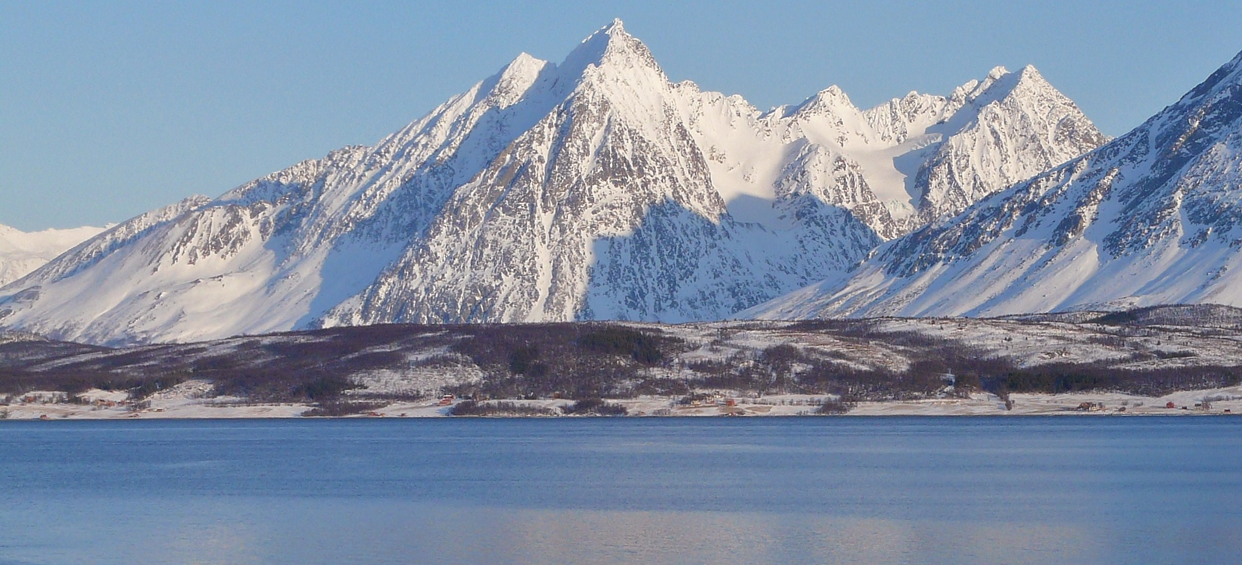 The southface of a mountain massif containing the summits of Stortinden (1,512 m), Forholttinden (1,400 m) and Tvillingstinden (1,437 m) as seen from the Fylkesvei 293 road by the southern coast of Kjosen in 2009 February.